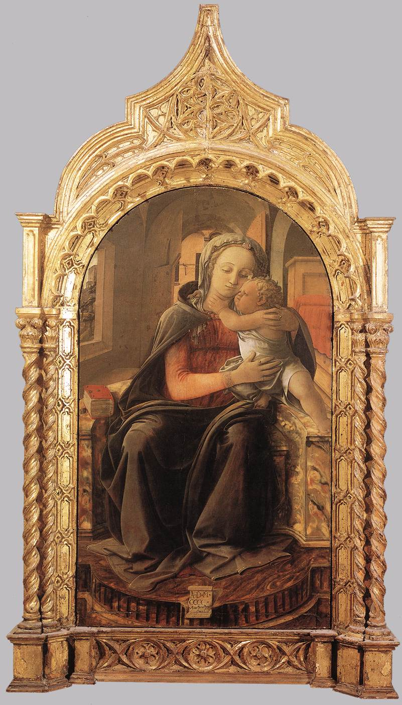 Madonna and Child Enthroned (also known as Madonna of Tarquinia). Commissioned by Archbishop Giovanni Vitelleschi. Now in the National Gallery, Rome.